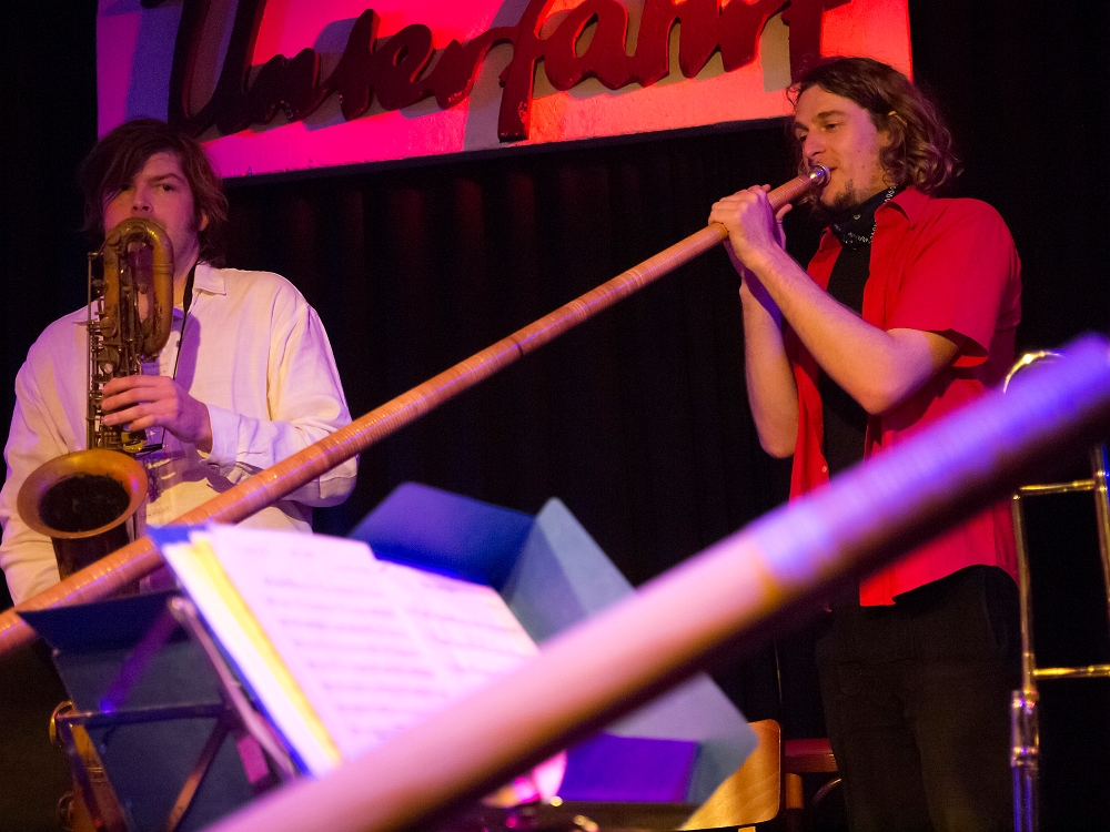 Heiko Bidmon, Jazz saxophonist, Johannes Bär, Jazz alphornist; Picture taken in Jazz Club Unterfahrt, Munich/Bavaria